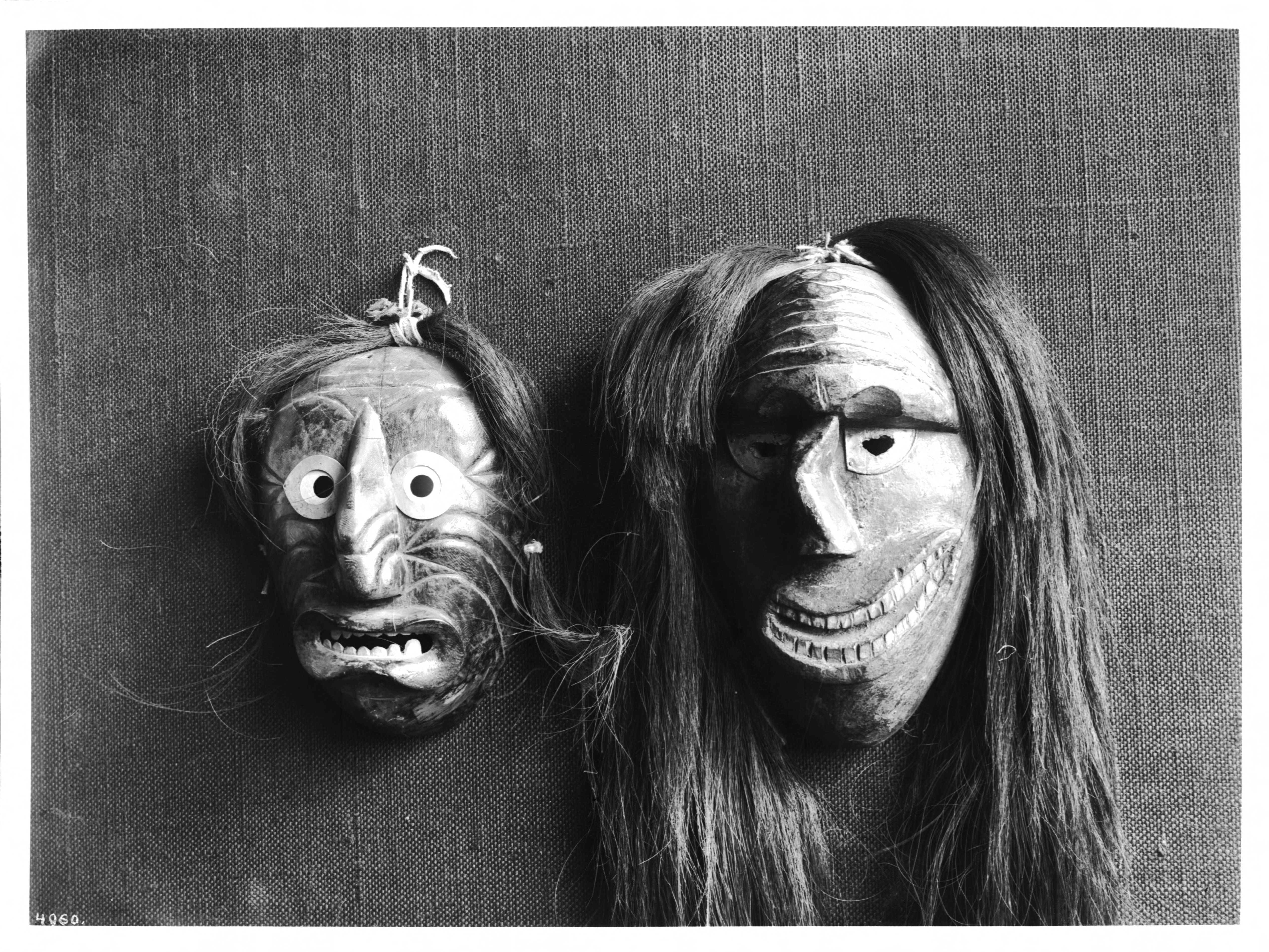 Two Alaska Iroquois Indian masks on display, ca.1900 Photograph of a two Alaska Iroquois Indian masks on display, ca.1900. Both are probably constructed from carved wood and have natural looking hair on top of their heads. The one at left has round disc-like eyes and rounded teeth in a horizontal mouth. The one at right has squared teeth in a broadly grinning mouth. Call number: CHS-4060 Filename: CHS-4060 Coverage date: circa 1900 Part of collection: California Historical Society Collection, 1860-1960 Format: glass plate negatives Type: images; physical objects Microfiche number: 1-187- Repository name: USC Libraries Special Collections Accession number: 4060 Author: Pierce, C.C. (Charles C.), 1861-1946 Archival file: chs_Volume96/CHS-4060.tiff Part of subcollection: Title Insurance and Trust, and C.C. Pierce Photography Collection, 1860-1960 Repository address: Doheny Memorial Library, Los Angeles, CA 90089-0189 Geographic subject (country): USA Format (aacr2): 3 photographs : glass photonegative, photoprints, b&w ; 17 x 22 cm., 21 x 26 cm. Rights: Digitally reproduced by the USC Digital Library; From the California Historical Society Collection at the University of Southern California Subject (adlf): tribal areas Project: USC Repository Contributing entity: California Historical Society Date created: circa 1900 Publisher (of the digital version): University of Southern California. Libraries Format (aat): photographic prints; photographs Geographic subject (state): Alaska Legacy record ID: chs-m16570; USC-1-1-1-14018 Access conditions: Send requests to address or e-mail given. Phone (213) 821-2366; fax (213) 740-2343. Subject (file heading): Indians -- Arts and crafts -- General Subject (lcsh): Indians of North America; Masks Subject: Indians